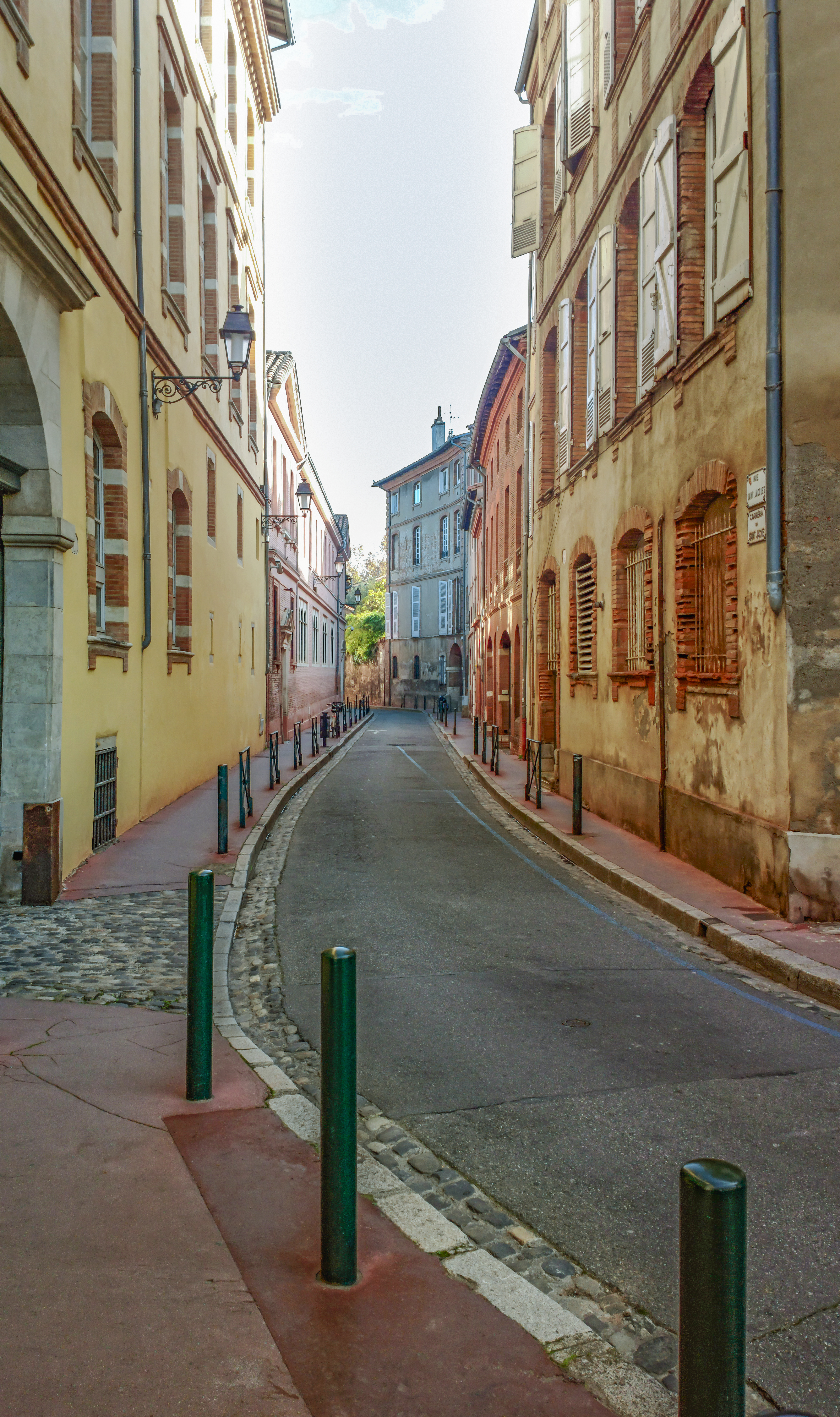 Rue Saint-Jacques, in Toulouse - viewed from the beginning Place Saintes-Scarbes.